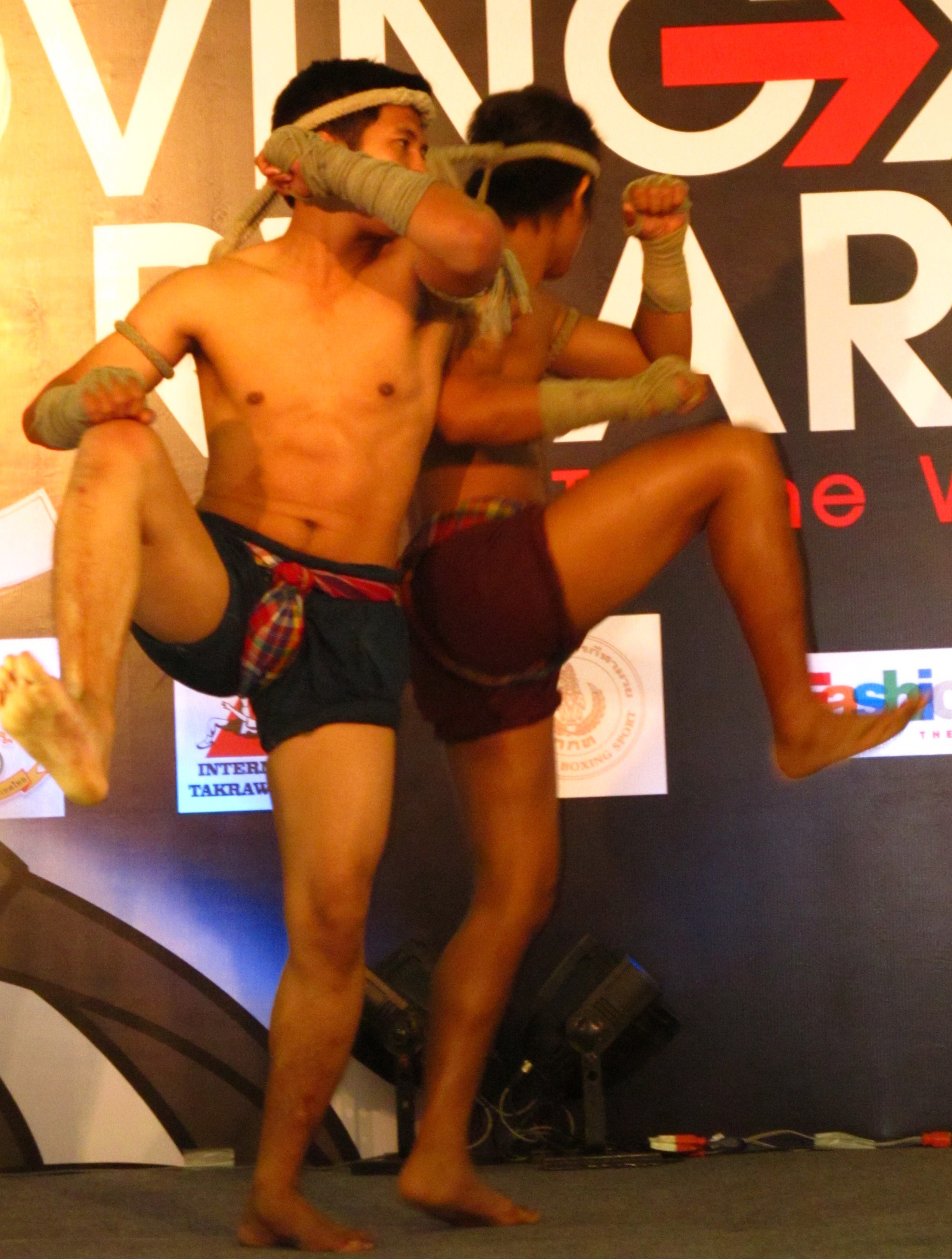 Wai khru ram muay 2